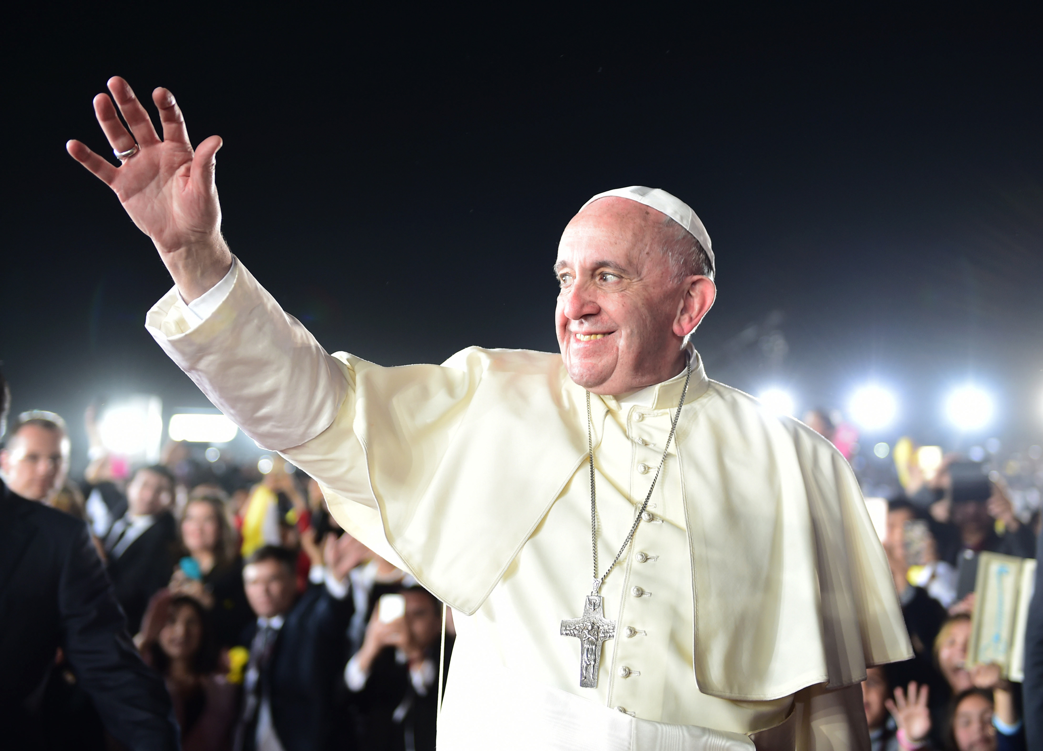 17 de Febrero del 2016